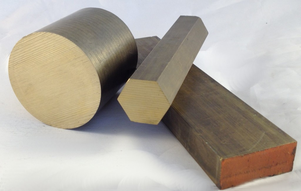 Naval Brass